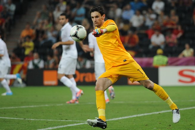 Hugo Lloris at Euro 2012 match Spain-France